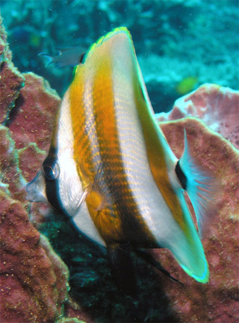 Orange-banded butterflyfish (Coradion chrysozonus), Pulau Redang, West Malaysia